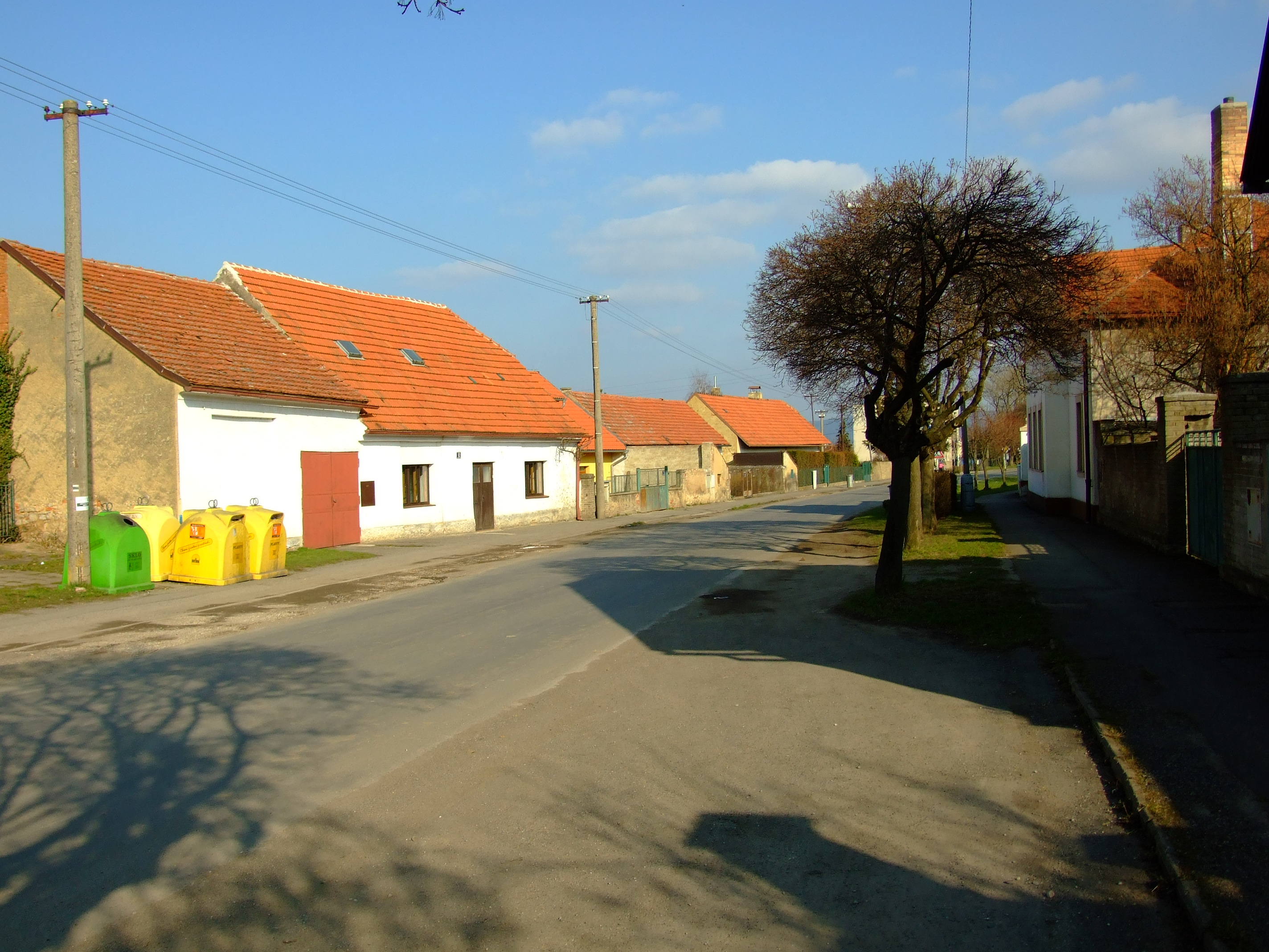 Town of Liteň, Central Bohemian region, CZ